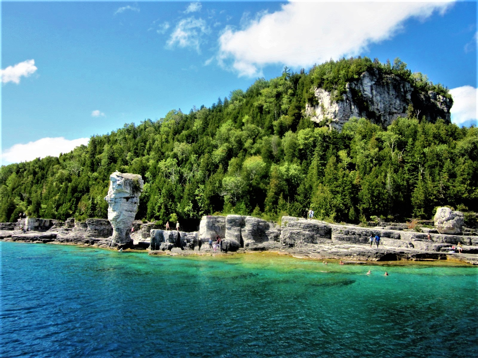 Fathom Five National Marine Park- Flowerpot Island- Georgian Bay- Tobermory –Ontario This photo was taken in a protected area in Canada, Wikidata item Fathom Five National Marine Park (Q862200)